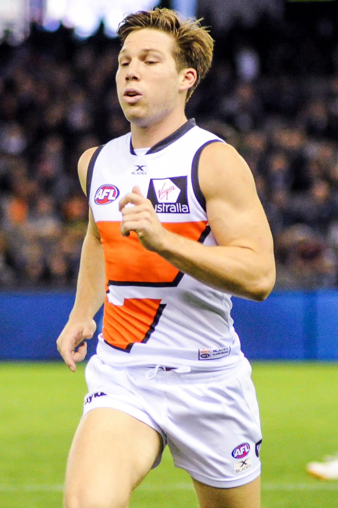 Toby Green during the AFL round twelve match between Carlton and Greater Western Sydney on 11 June 2017 at Etihad Stadium in Melbourne, Victoria.